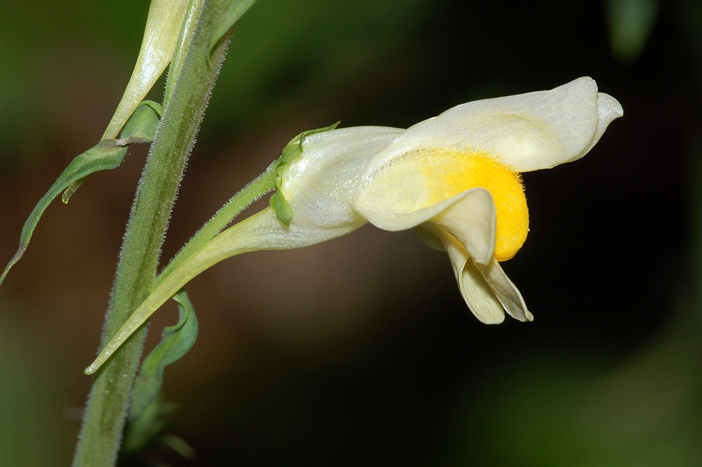 Linaria vulgaris, Messel, Germany